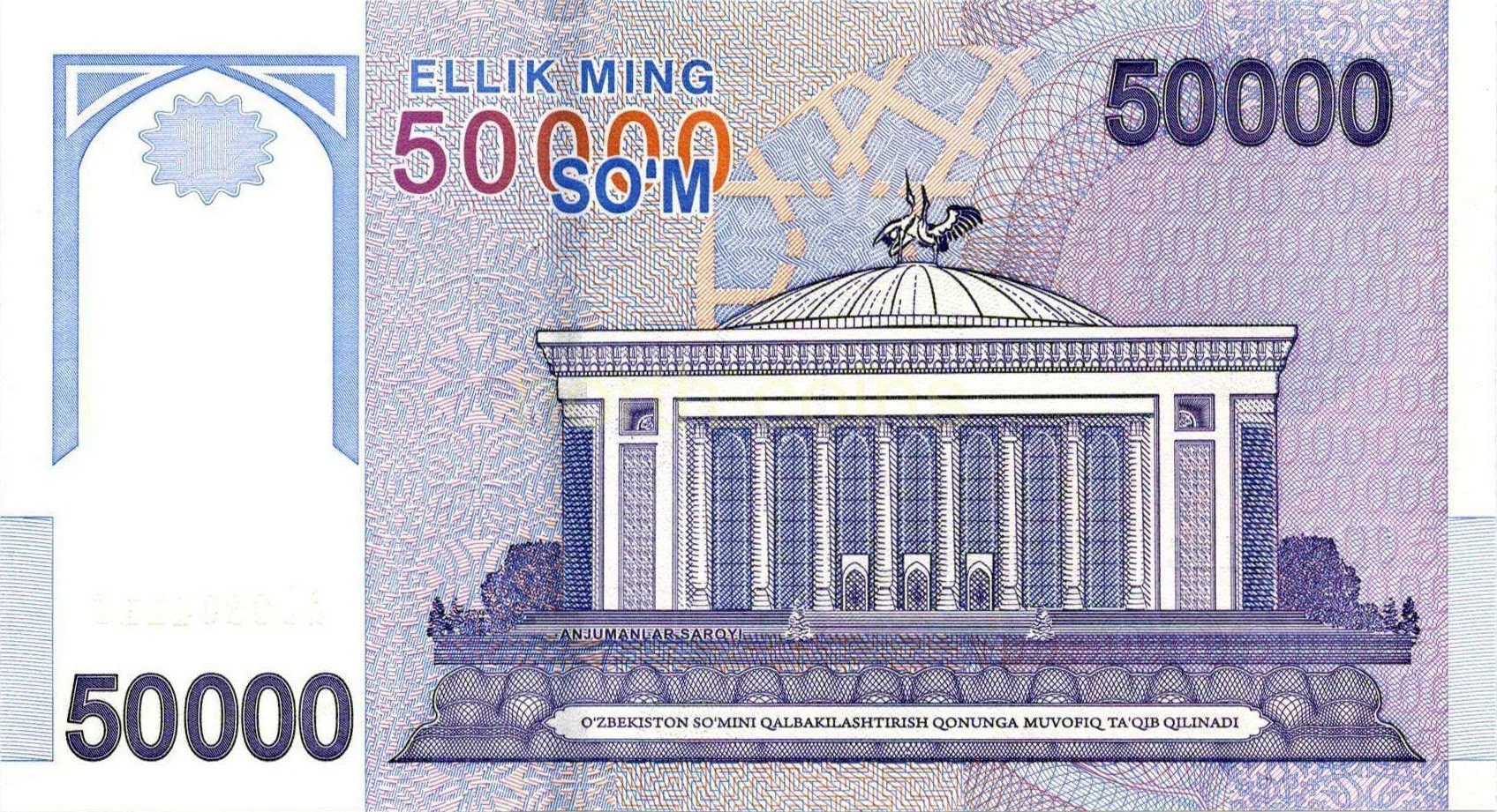 50000 soms of Uzbekistan (2017)